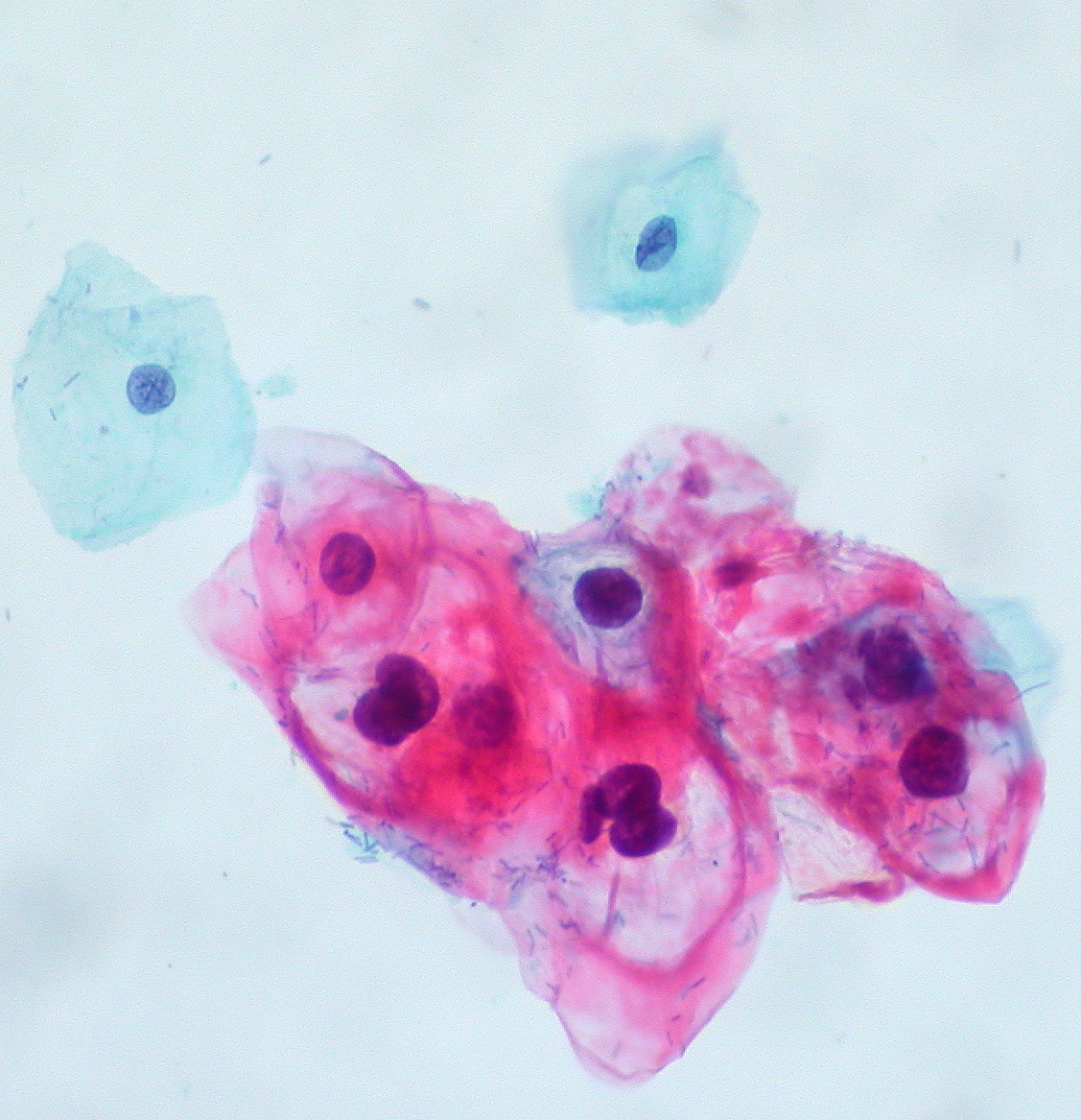 A group of HPV-infected koilocytes on the the bottom right is accompanied by two normal intermediate squamous cells at the top and left.